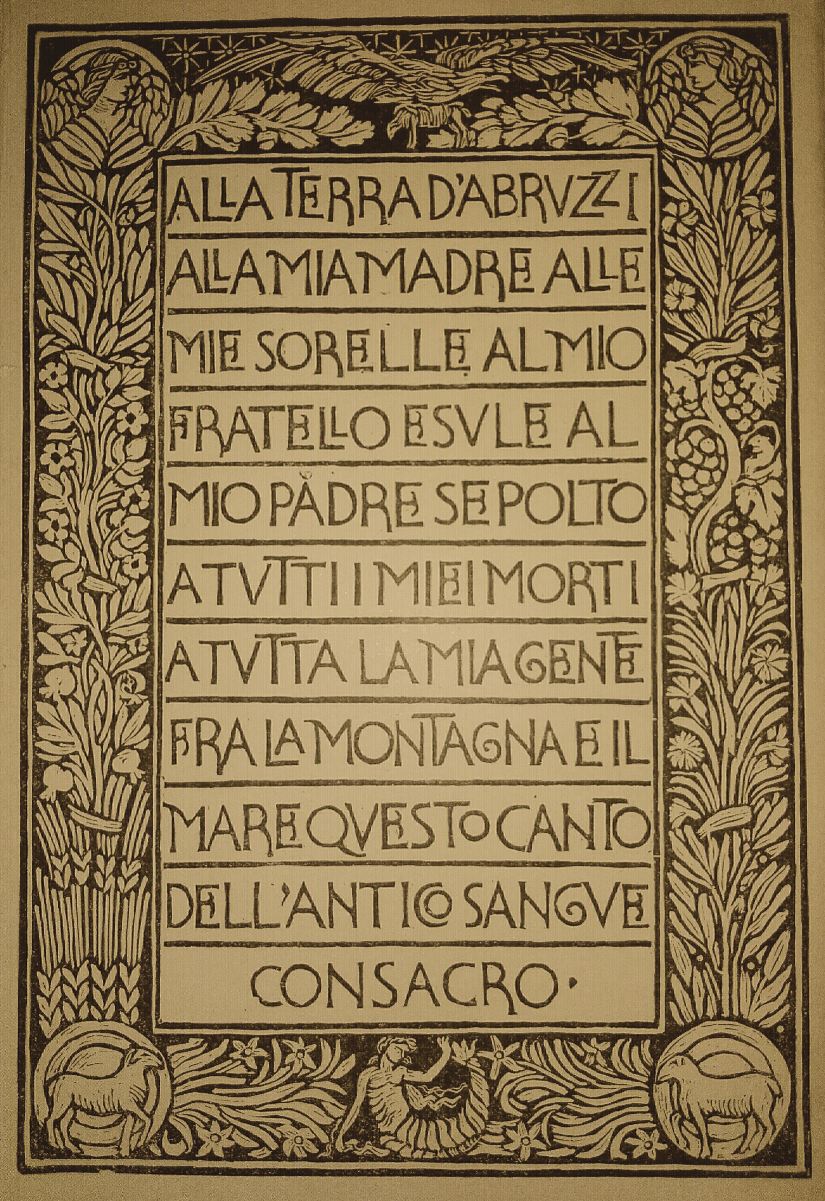 The Daughter of Iorio, dedication of D'Annunzio, woodcut by Adolfo De Carolis. 1904 Fratelli Treves Editori